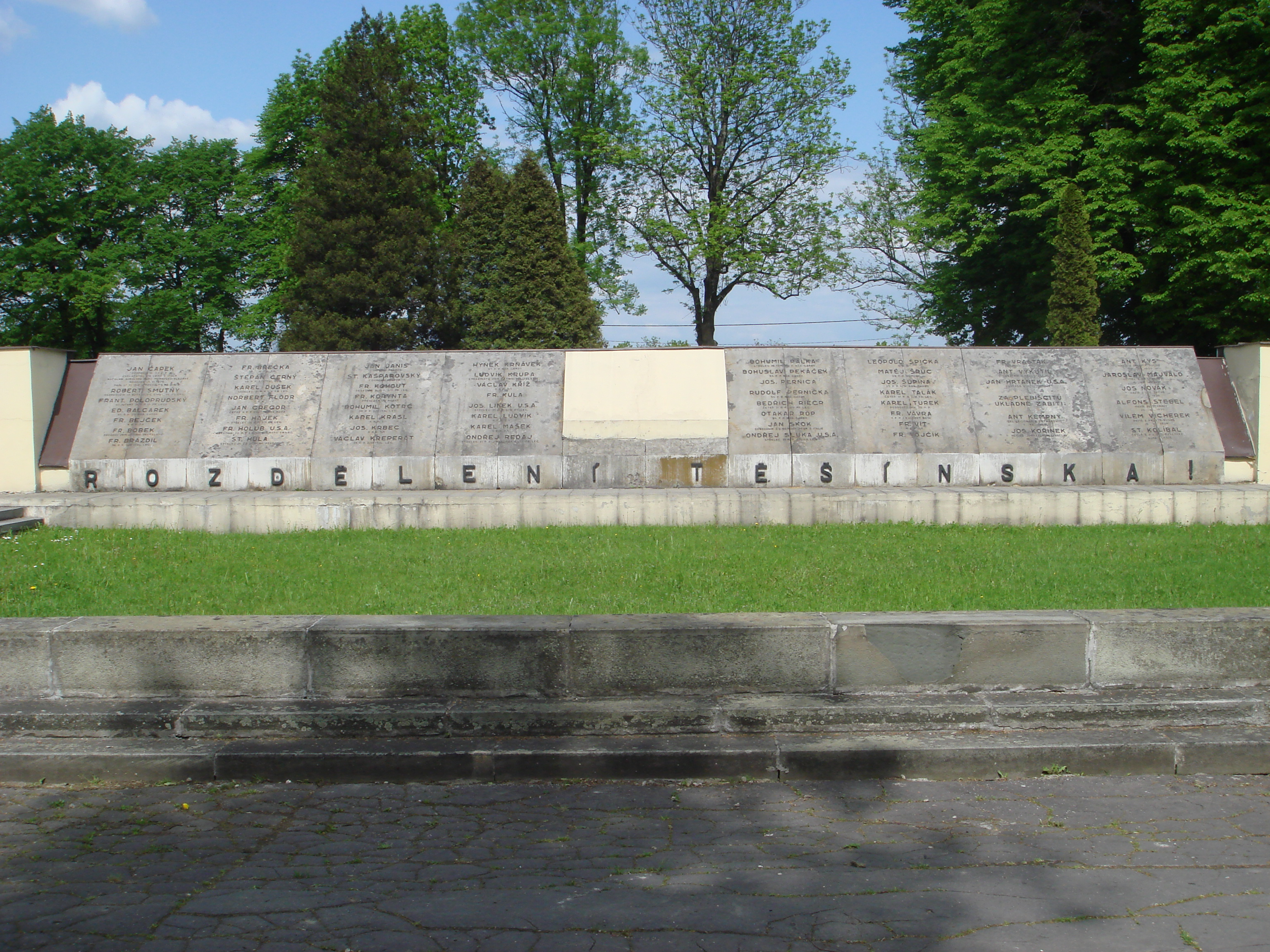 Frontal view to the monument in Orlová commemorating Czech victims of the Czechoslovak-Polish dispute over Cieszyn Silesia (Moravian-Silesian Region, Czech Republic).